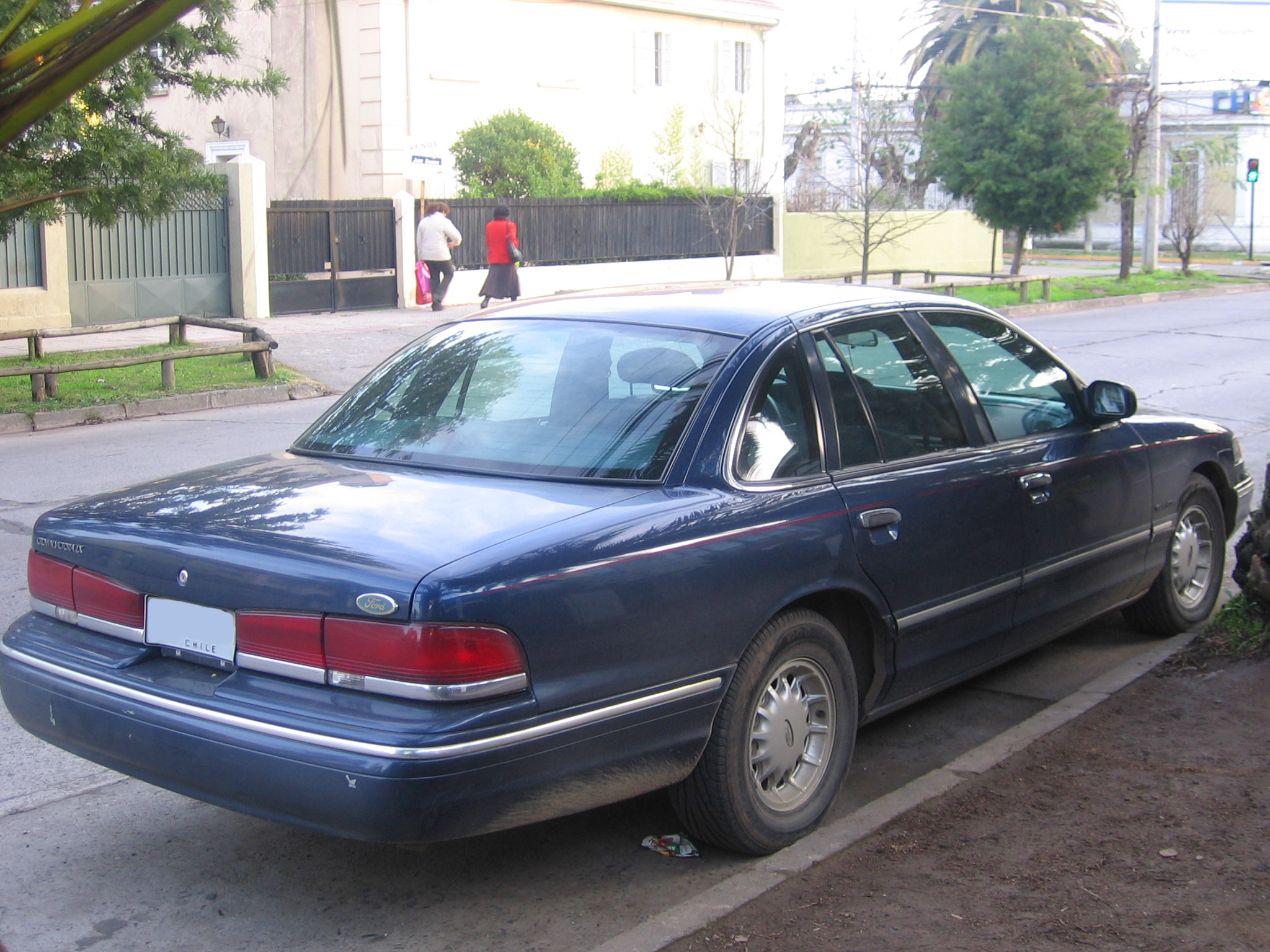 Ford Crown Victoria LX 1995